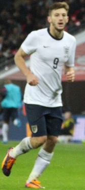 Adam Lallana playing for England in 2013. Cropped from a larger image.